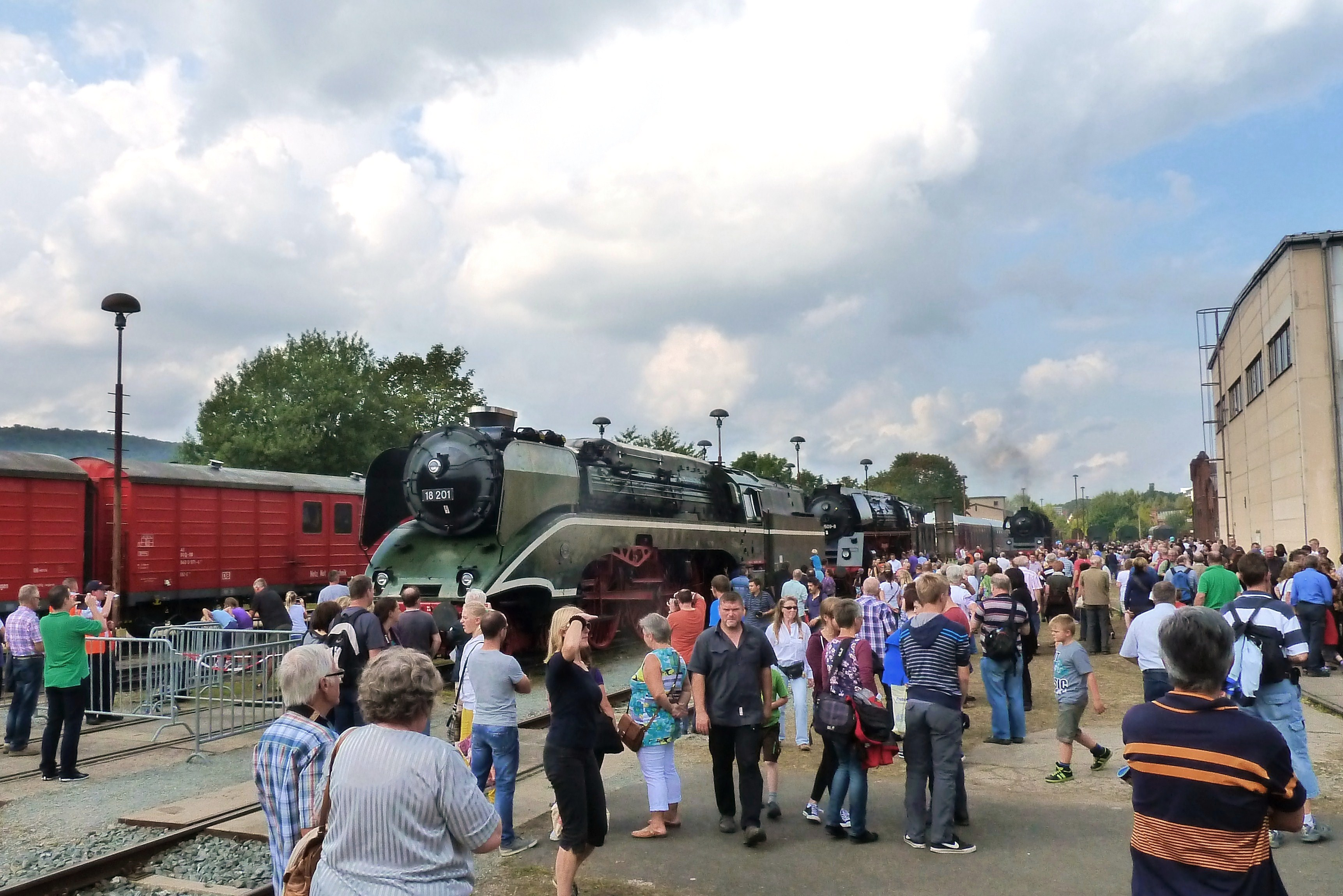 Steam festival in Meiningen, Germany